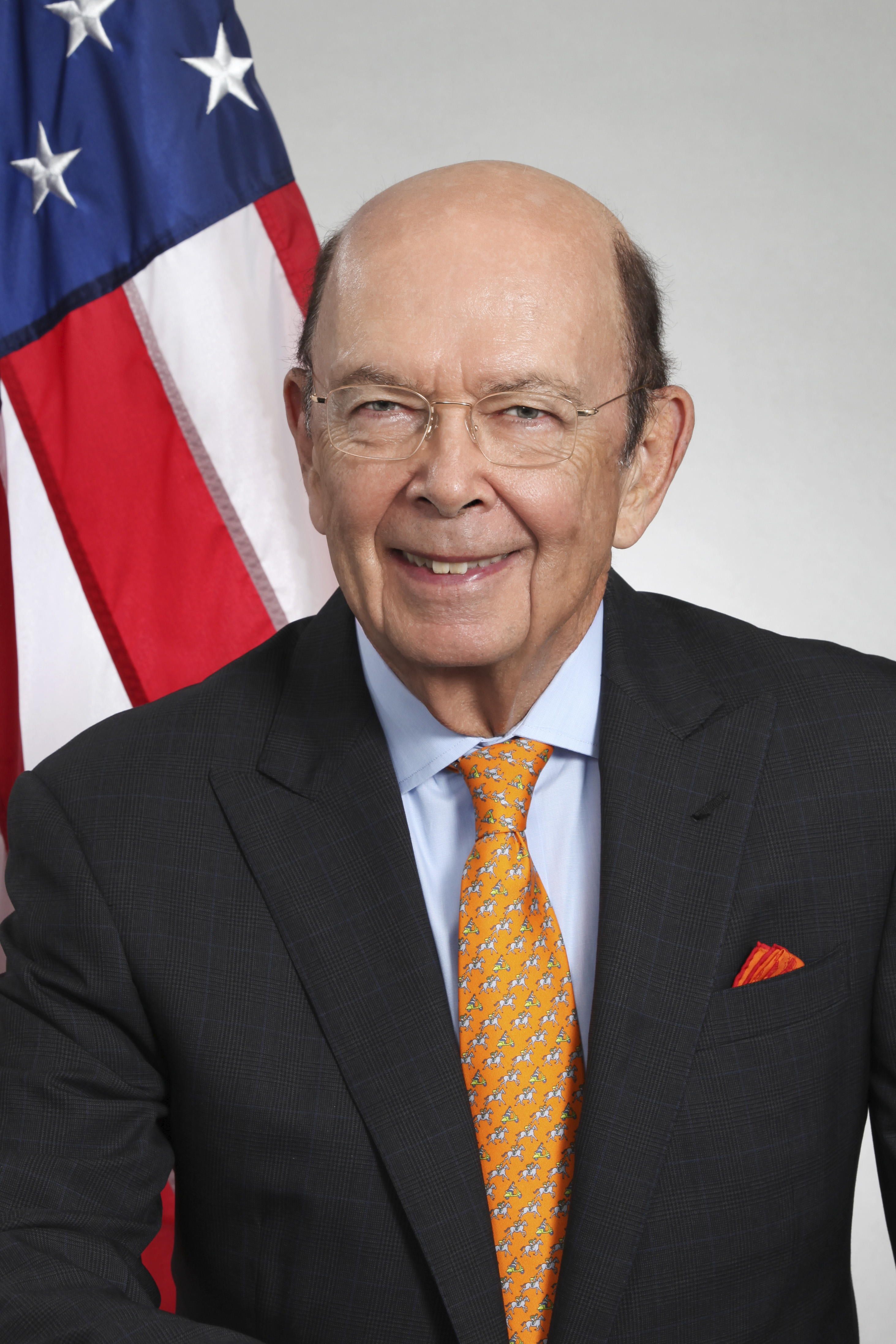 Official portrait of Department of Commerce Secretary Wilbur Ross